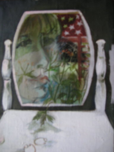 autor pracy - Ewa Wieczorek autor zdjęcia - Beata Sokalska-Wieczorek i Piotr Wieczorek